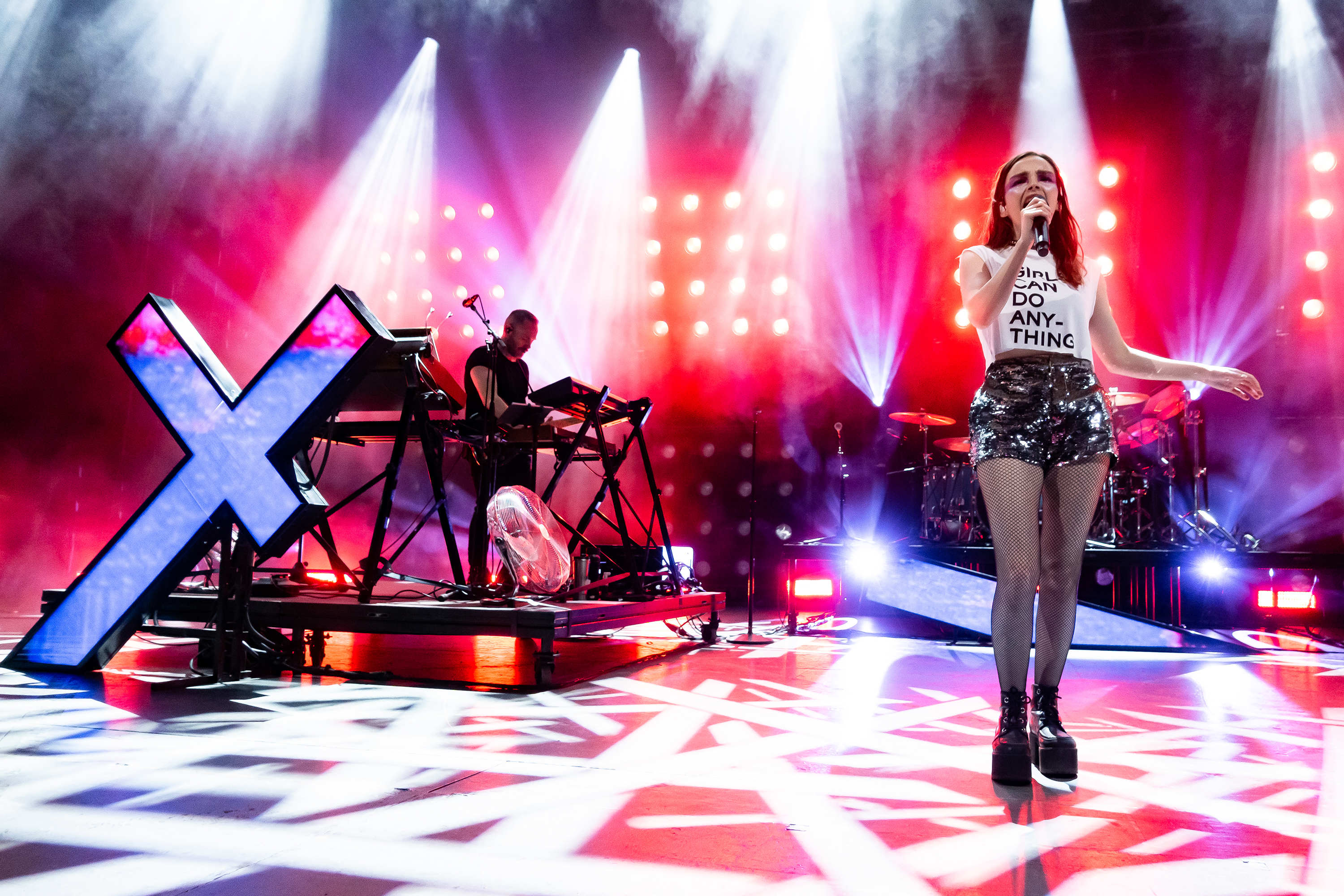 Chvrches performing live at The Greek theatre in Griffith Park, Los Angeles, California, on Sunday, September 23, 2018.